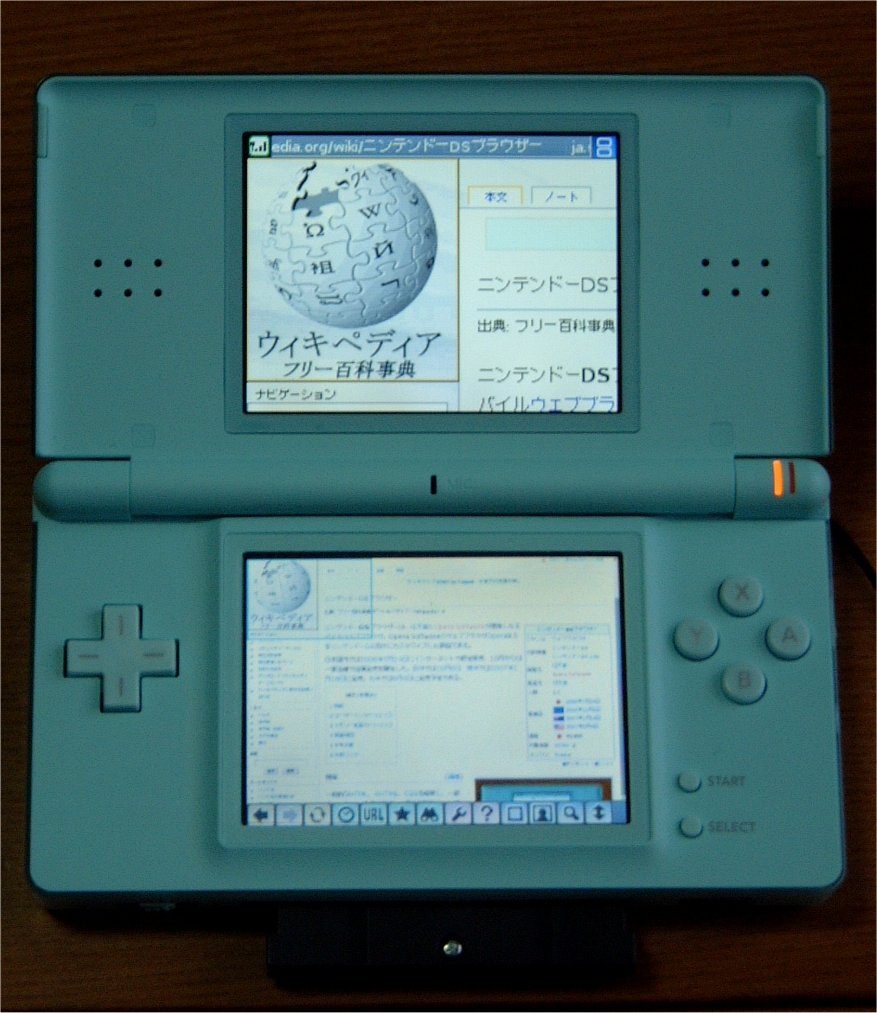 Japanese Wikipedia screenshot on Nintendo DS Browser of Nintendo DS Lite.